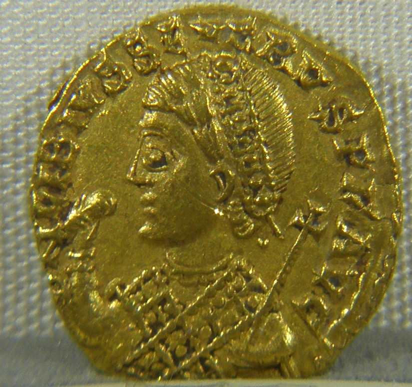 Coin of Libius Severus